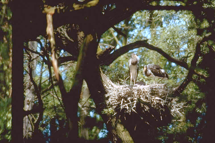 Gemenc